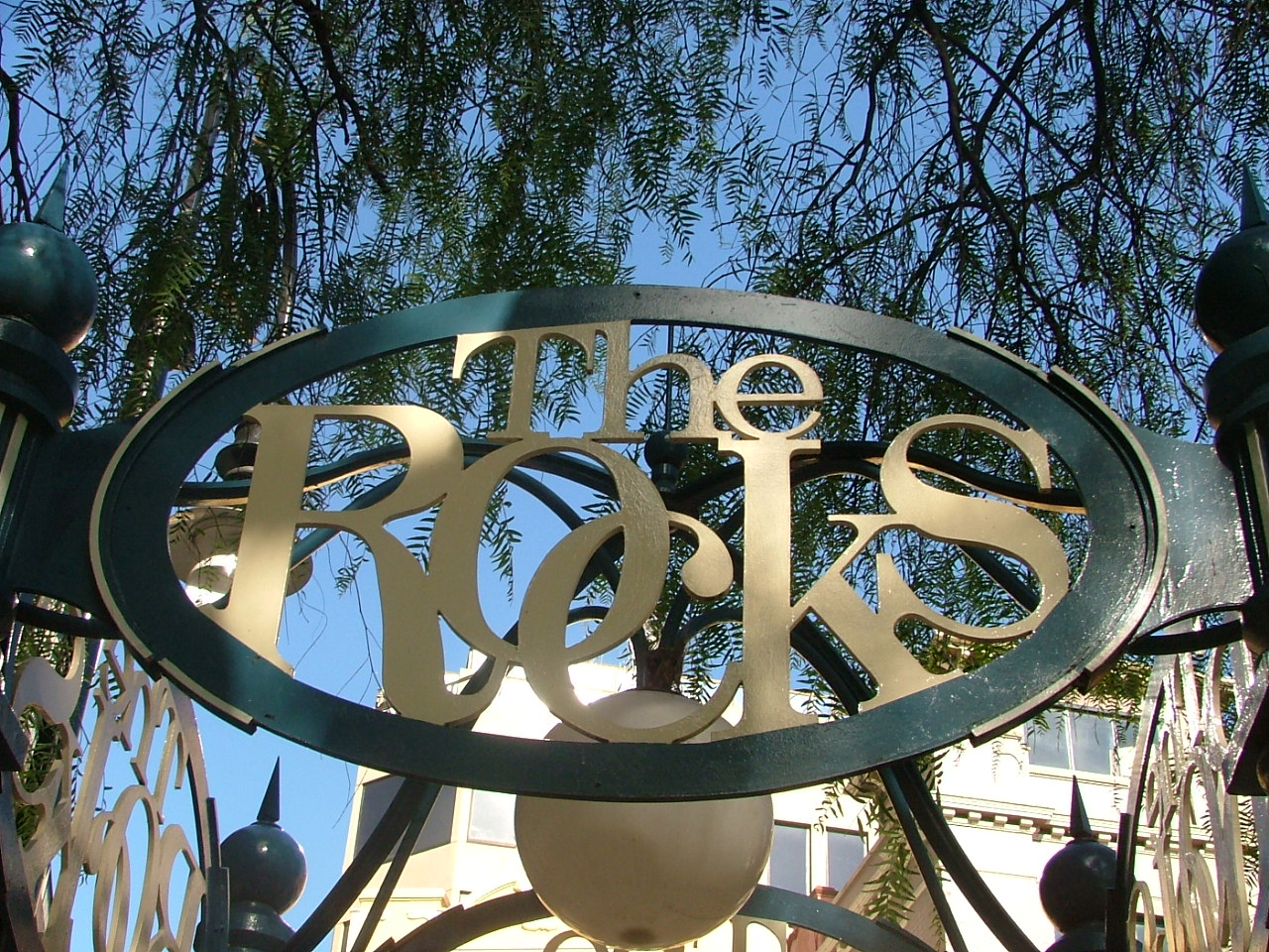 Sign at the entrance of The Rocks in Sydney